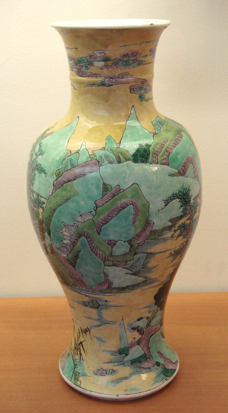 Vase with landscape decoration. China, Jiangxi, Jindezhen. Qing dynasty, Kangxi period (1662-1722). Porcelain decorated with enamels on biscuit. H. 44 cm, D. 20.7 cm. Guimet Museum. Ernest Grandidier Collection, 1894, G 479.